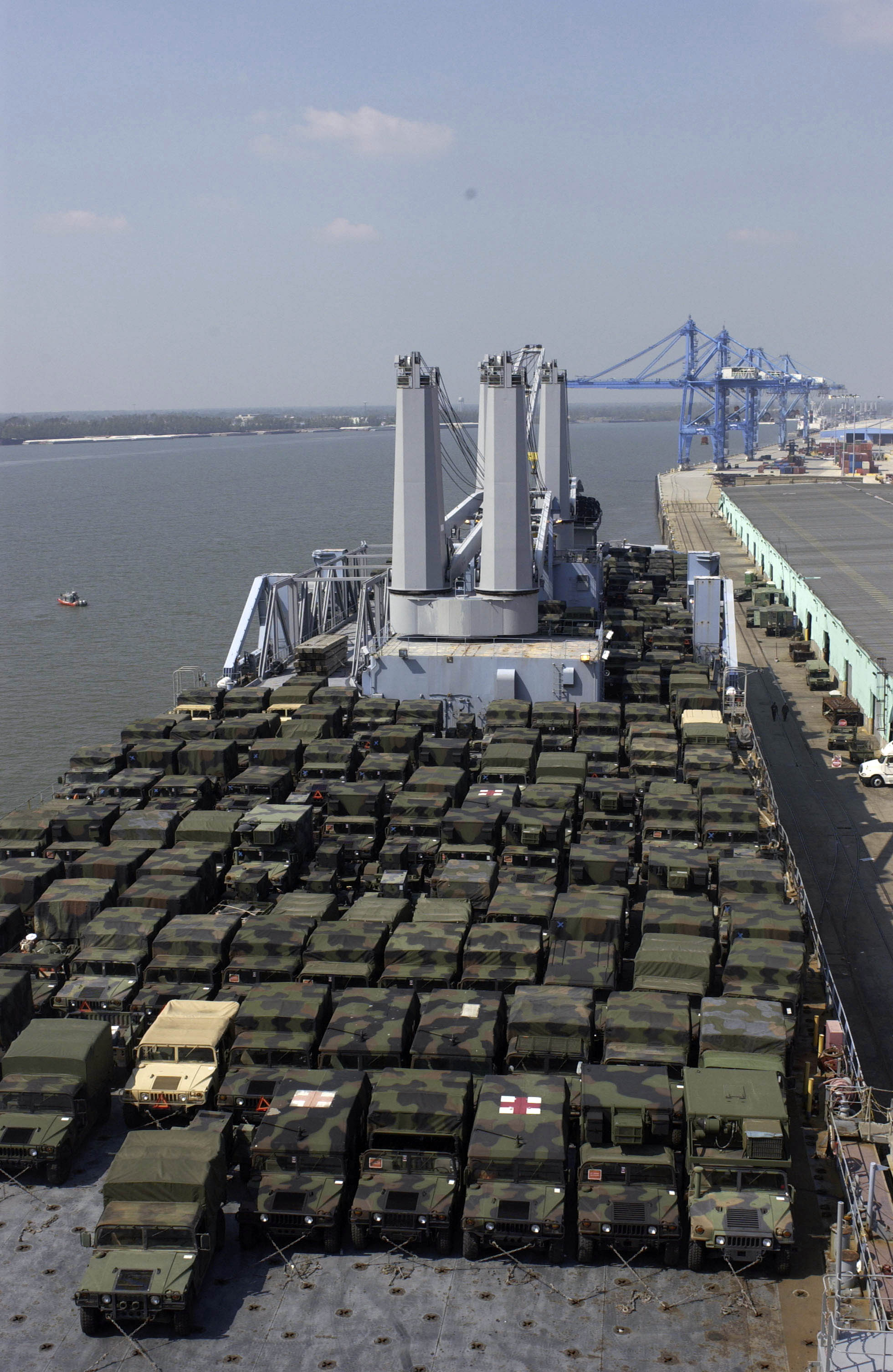 New Orleans (Sept. 28, 2005) - U.S. Army High Mobility Multipurpose Wheeled Vehicles (HMMWV) from the 82nd Airborne Division, Ft. Bragg, N.C., are loaded onto the Military Sealift Command (MSC) large, medium-speed roll-on/roll-off ship USNS Pililaau (T-AKR 304) docked in New Orleans. The Navy and Army’s involvement in hurricane humanitarian assistance operations are led by the Federal Emergency Management Agency (FEMA), in conjunction with the Department of Defense. U.S. Air Force photo by Tech. Sgt. Denise A. Rayder (RELEASED)